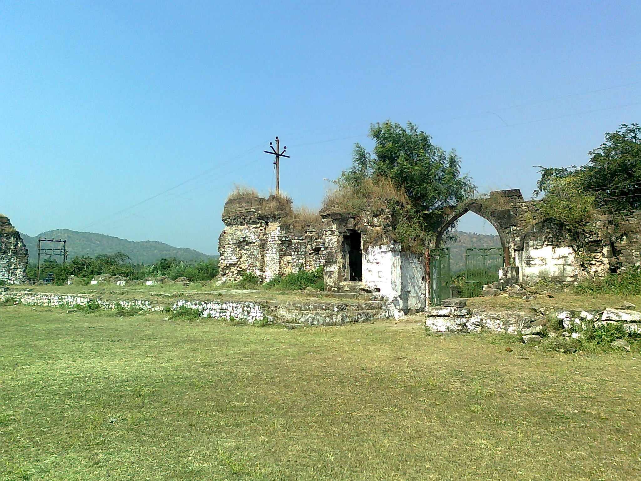 Old defunct structure called Hatti Madhi in Pal village, Jalgaon district, India.